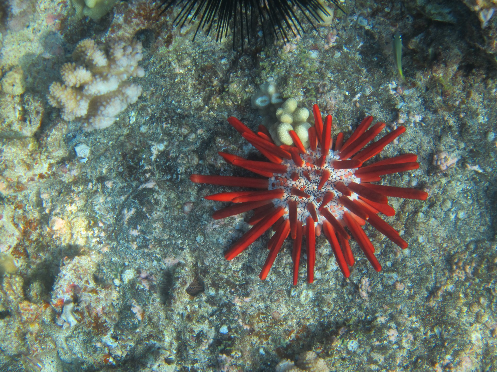 SEA LIFE UNDERWATER MAUI